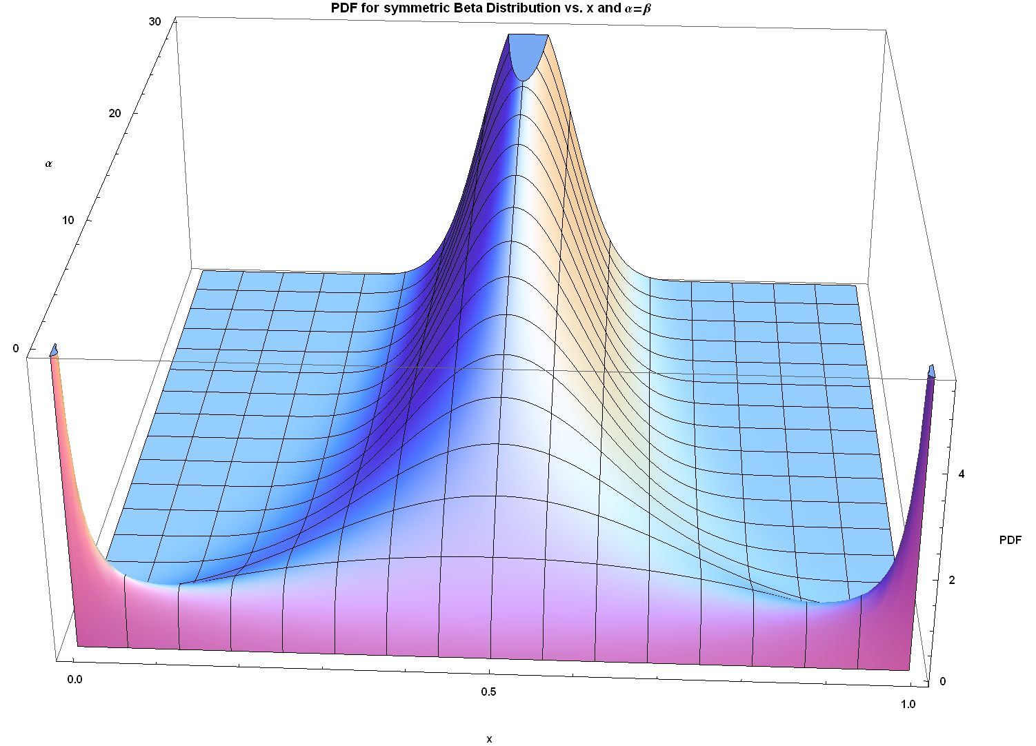 PDF for symmetric beta distribution vs. x and alpha=beta from 0 to 30 - J. Rodal